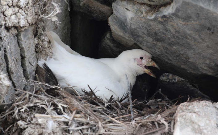 White-faced Sheathbill sitting on it's nest